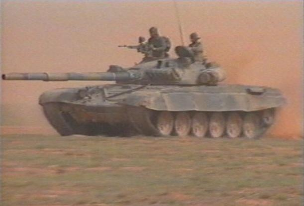 Algerian Tanks. Source:Own Work Author:Cohen Mashaoul (Octobre 2005)